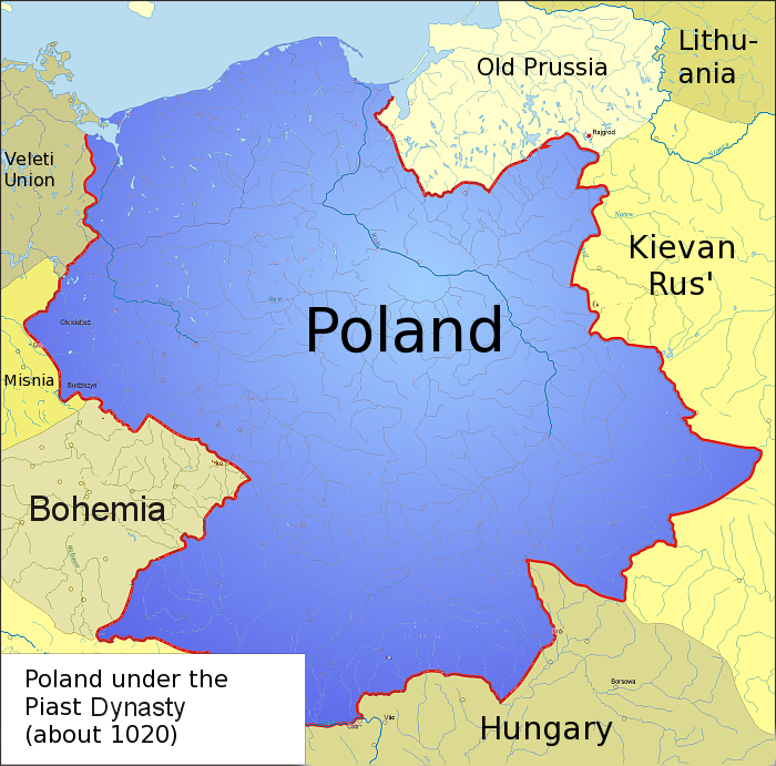 Poland in the year 1020